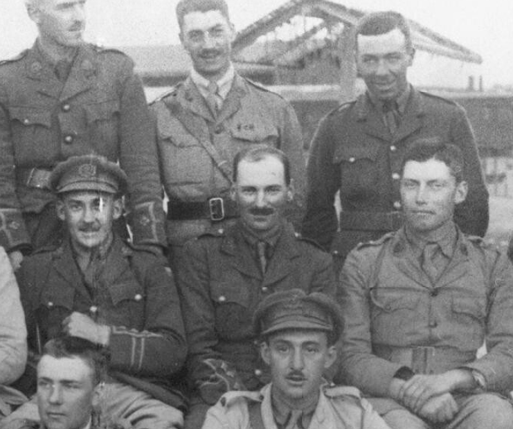 Officers of the 6th South Lancashire Regiment, (38th Brigade, 13th Division) pictured before the Battle of Sunniayat, Mesopotamia. Clement Attlee is seen in the middle.